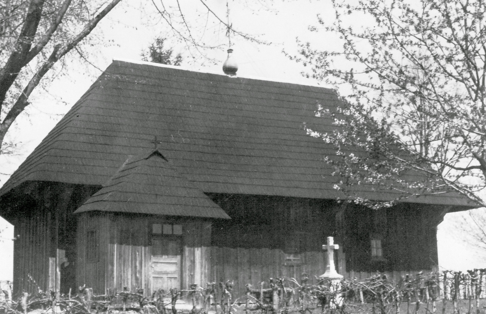 Church in Tișăuți, Storojineț (Cernăuți region, Ukraine) (image from the archive of the Metropolitan of Moldavia, 1936, free of copyright)